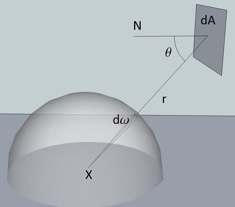 Rendering equation dw form to dA conversion situation.